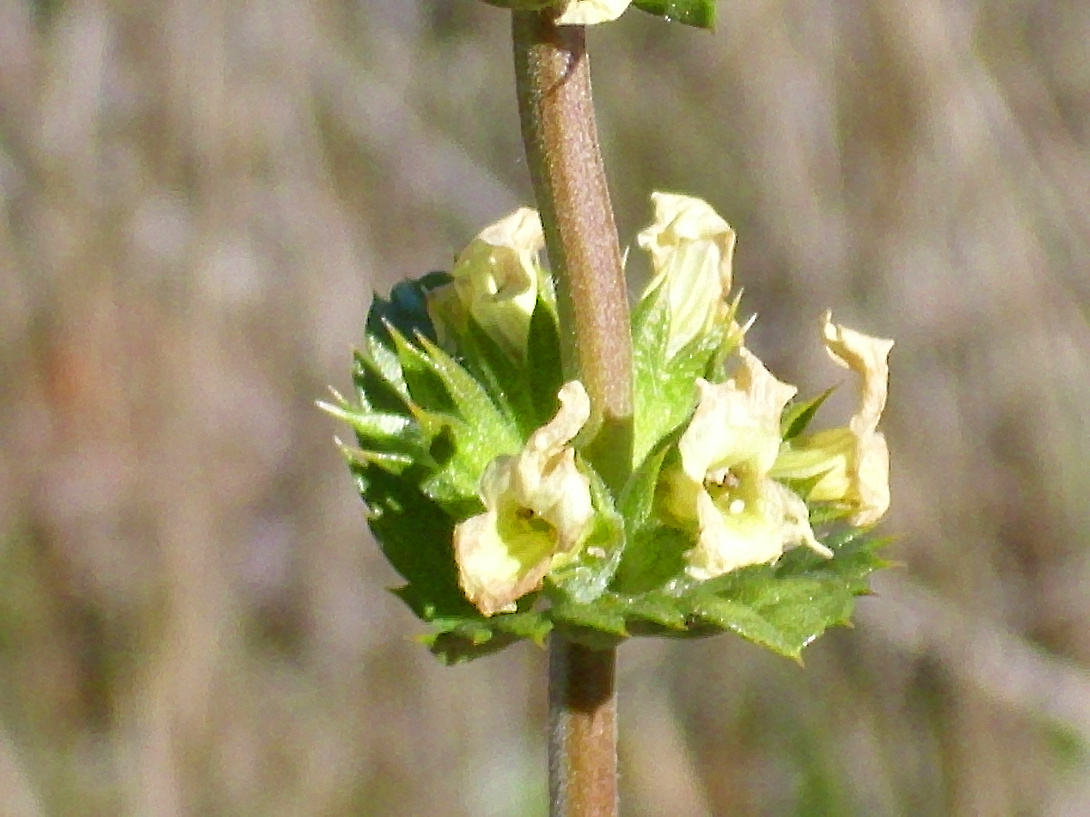 Sideritis angustifolia flowers close up, Sierra Madrona, Spain